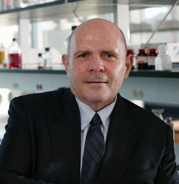 Photo of Prof. Samuel Stupp at his laboratory, the Institute for BioNanotechnology in Medicine in Chicago, IL.